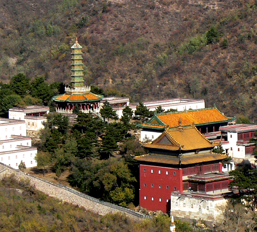 Glazed tile Longevity pagoda in the Xumi Fushou Temple